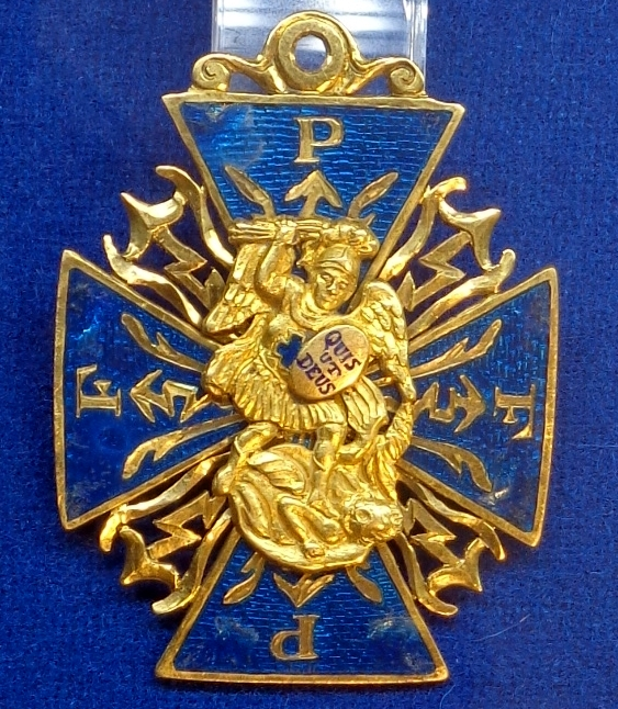 Order of Saint Michael, badge, 1720-1740. Electorate of Cologne. The exhibition of the Tallinn Museum of Orders of Knighthood, Estonia.